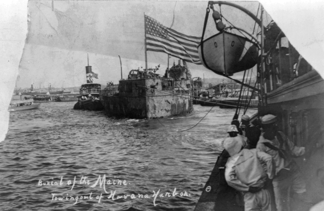 Wreck of the USS Maine being towed by the armored tugboat USS Osceola from Havana Harbor, Cuba. The Maine exploded under mysterious circumstances on February 14, 1898. The wreck was salvaged by the United States government from 1910 to 1913. Only the stern could be refloated. The wreck was towed backward out of the harbor, and sunk about four miles out to sea.